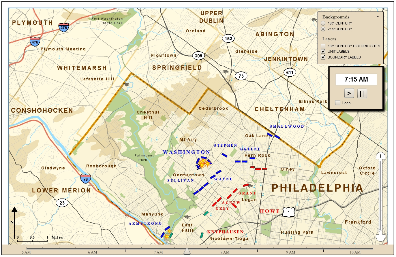 Snapshot of Germantown Animated Map, courtesy of Western Heritage Mapping